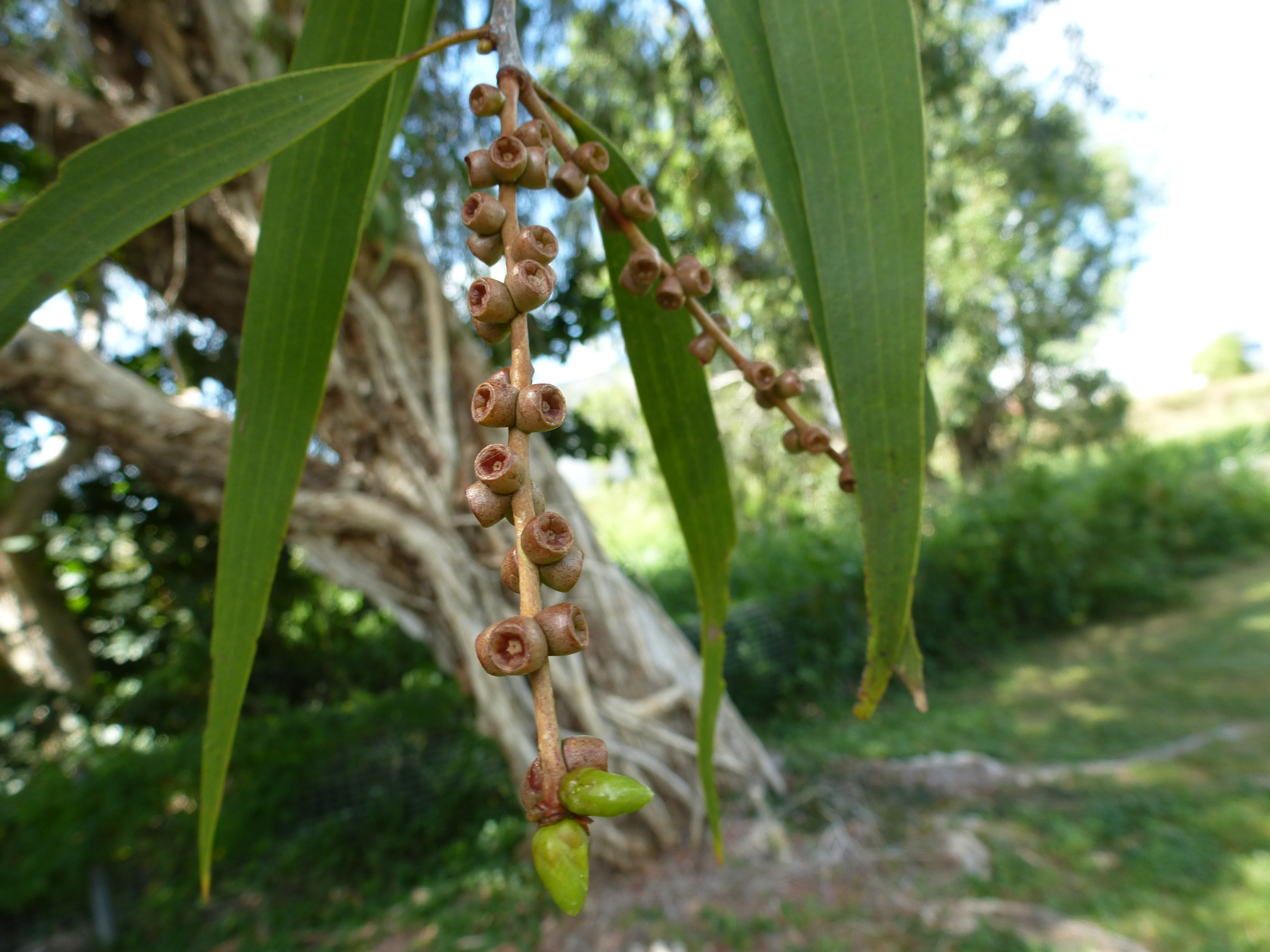 Melaleuca leucadendra fruits